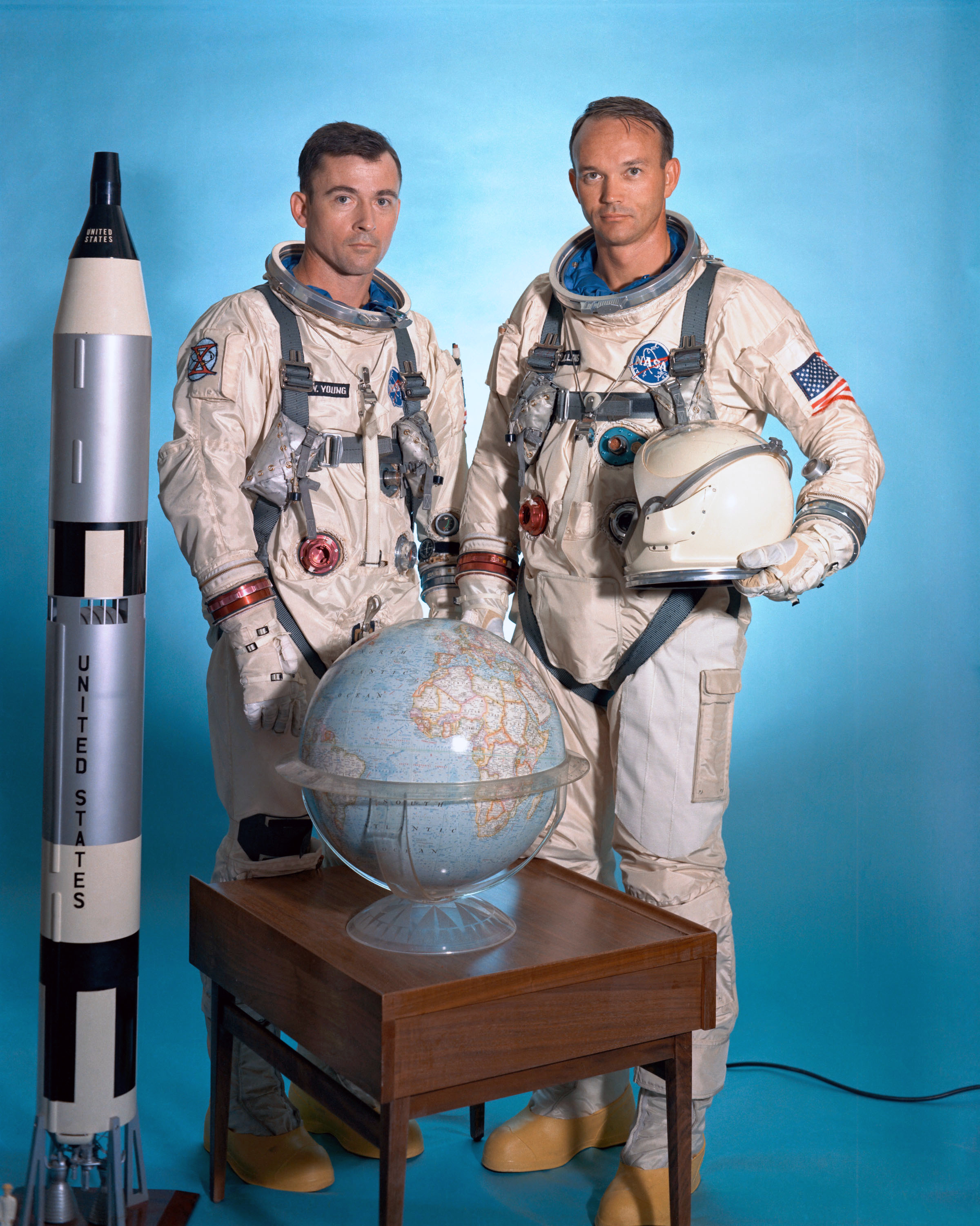 Portrait of Gemini 10 prime crew